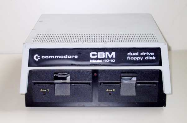 A Commodore 4040 dual disk drive; manufactured in West Germany ca. 1981